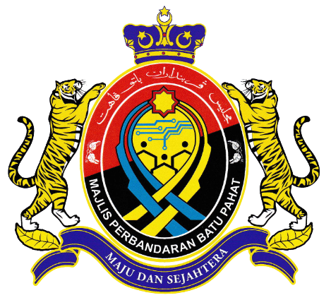 The Batu Pahat Municipal Council logo (MPBP) was created to create a strong and robust identity and reflect on the activities carried out at MPBP.